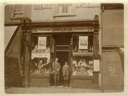 Old photo of Garlicks Chemist Shop in Chesham